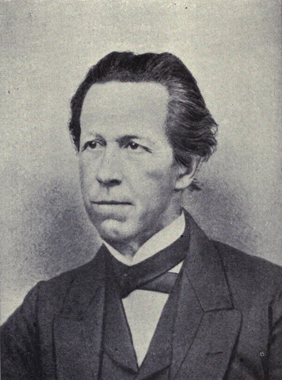 Rev. Cochran Forbes (1805–1880) was a Protestant missionary to Hawaii. He arrived in 1832, built a massive stone church at Kealakekua, but had to leave by 1846. He returned to the US and died in 1880.